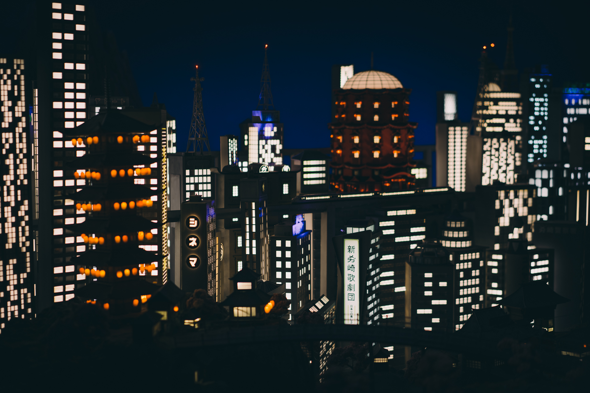 Sets from the film Isle of Dogs